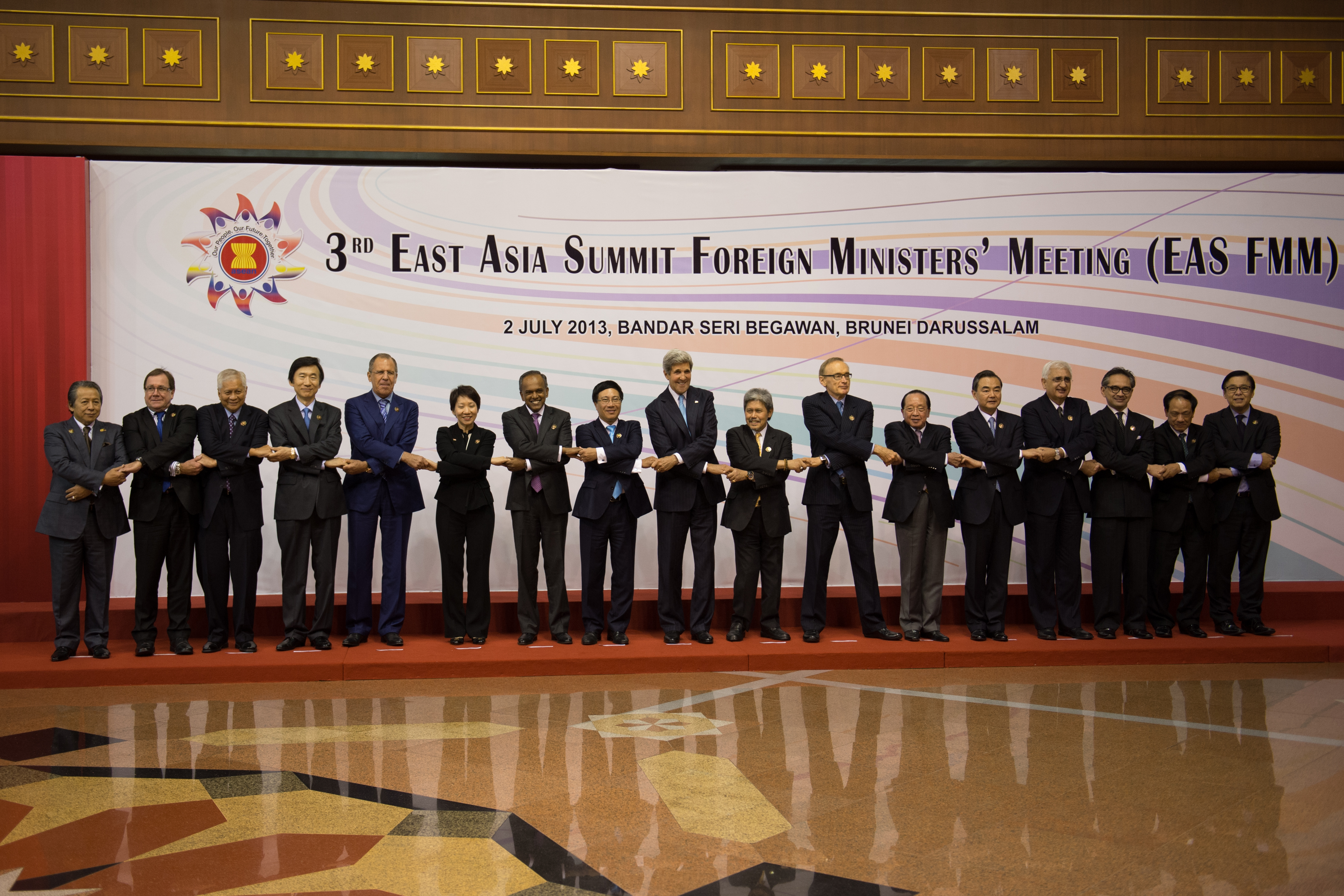 BANDAR SERI BEGAWAN, Brunei (July 2, 2013) U.S. Secretary of State John Kerry poses for a photo with foreign ministers of the East Asia Summit (EAS) countries [State Department Photo by William Ng/Public Domain]